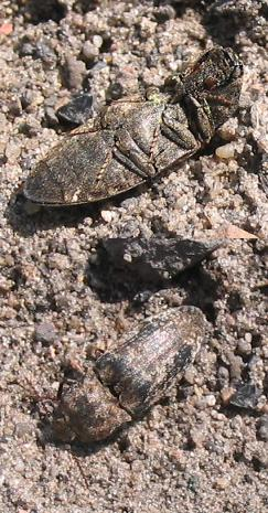 Agrypnus murinus, upper and lower sides.